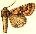 PLATE CXXVIII.